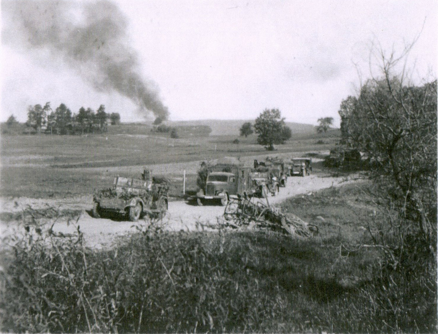 Germans entering Wola Duchacka near Cracow in 1939.